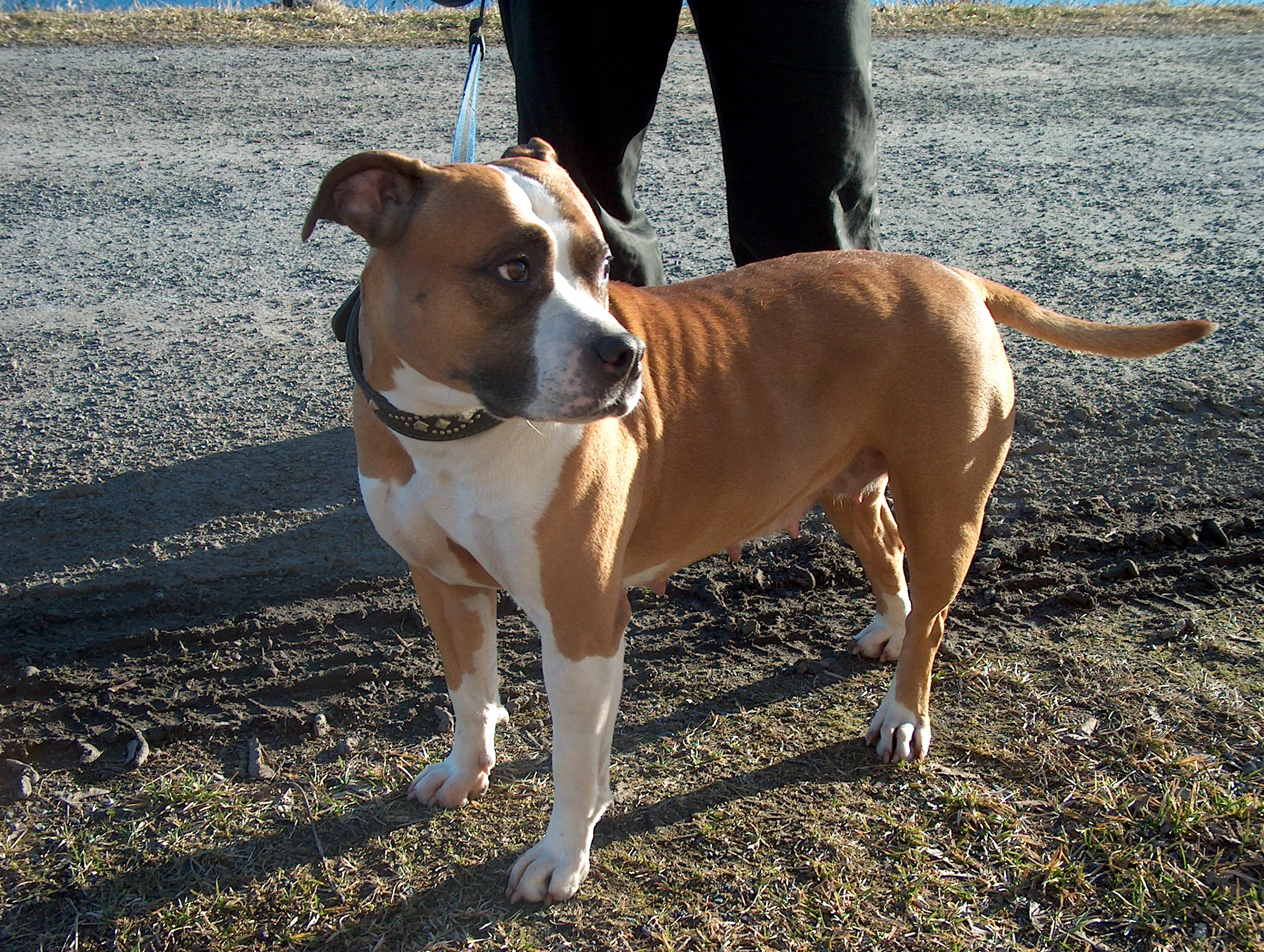 American Staffordshire Terrier (7 year old bitch)